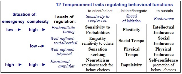 The difference between two similar activity-specific models.